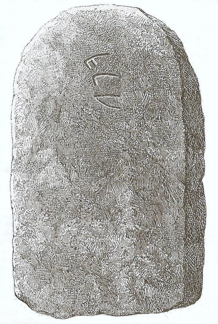 Runestone